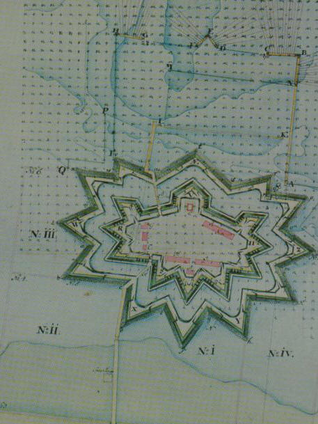 Project for a fortress and galley harbour at Nivå, Zealand, Denmark, 1750 (cropped from original). Original in Rigsarkivet.